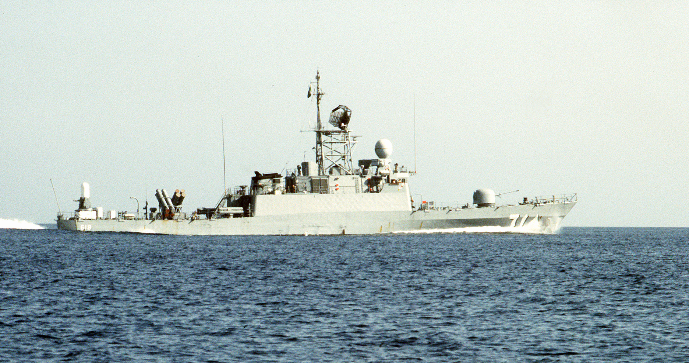 A starboard view of the Saudi Arabian missile corvette Tabuk (618) underway during Operation Desert Shield.